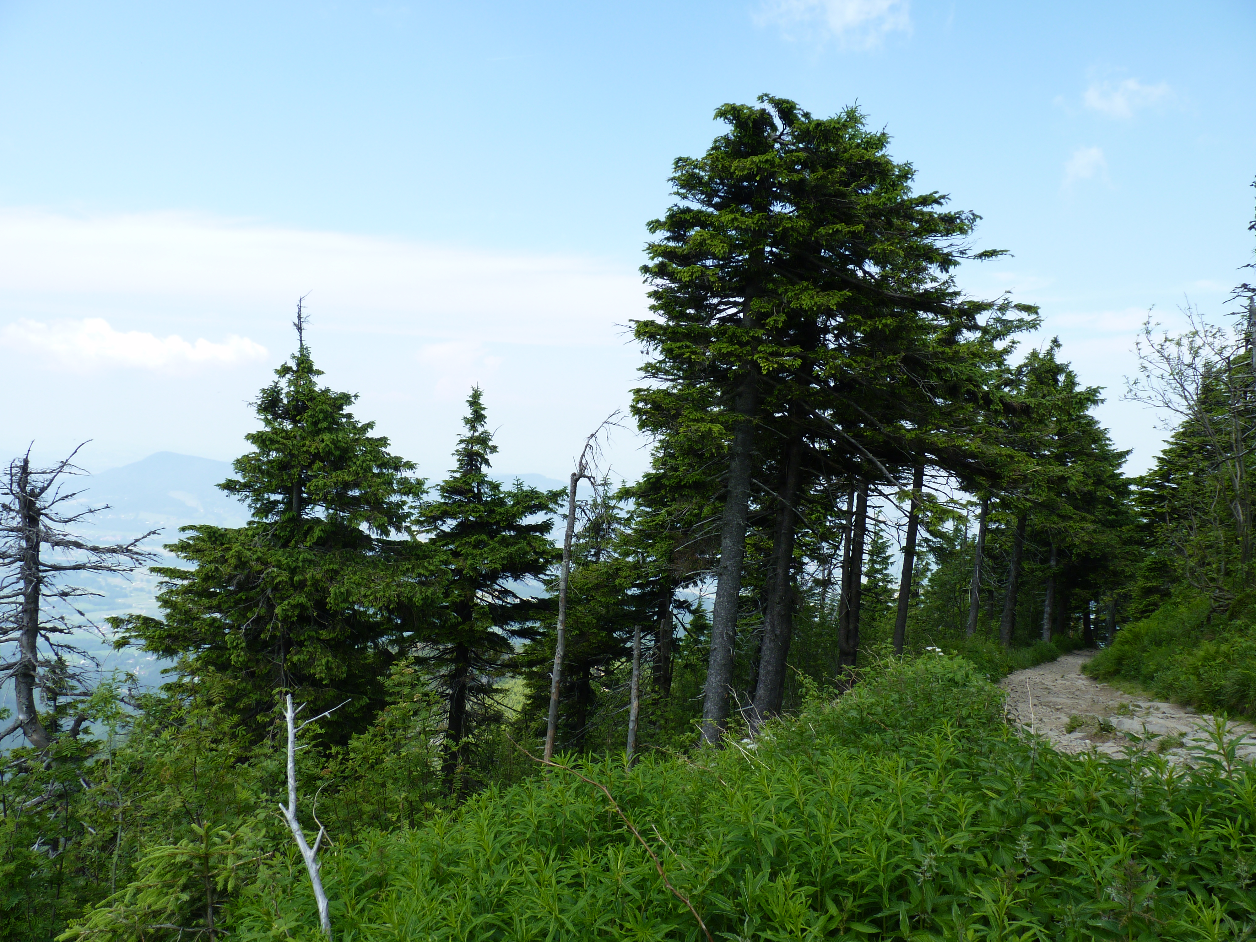 Moravian-Silesian Beskids, Czech Republic